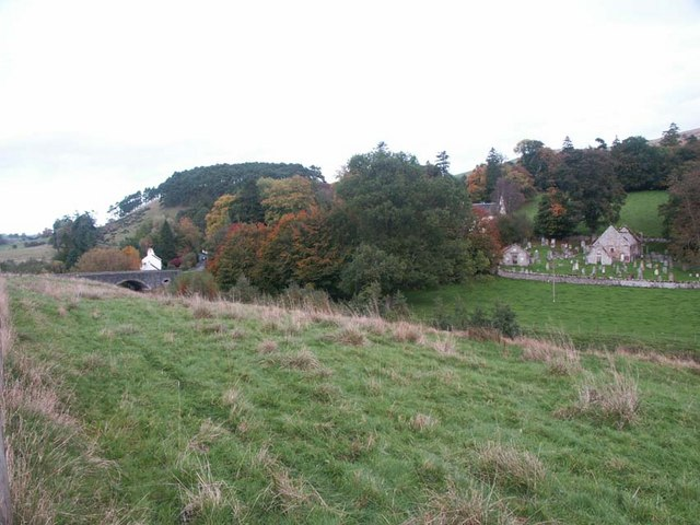 Village of Newlands — in Tweeddale (Peeblesshire), Scottish Borders. View with the B7059 stone Newlands Bridge, and the Newlands Cemetery.